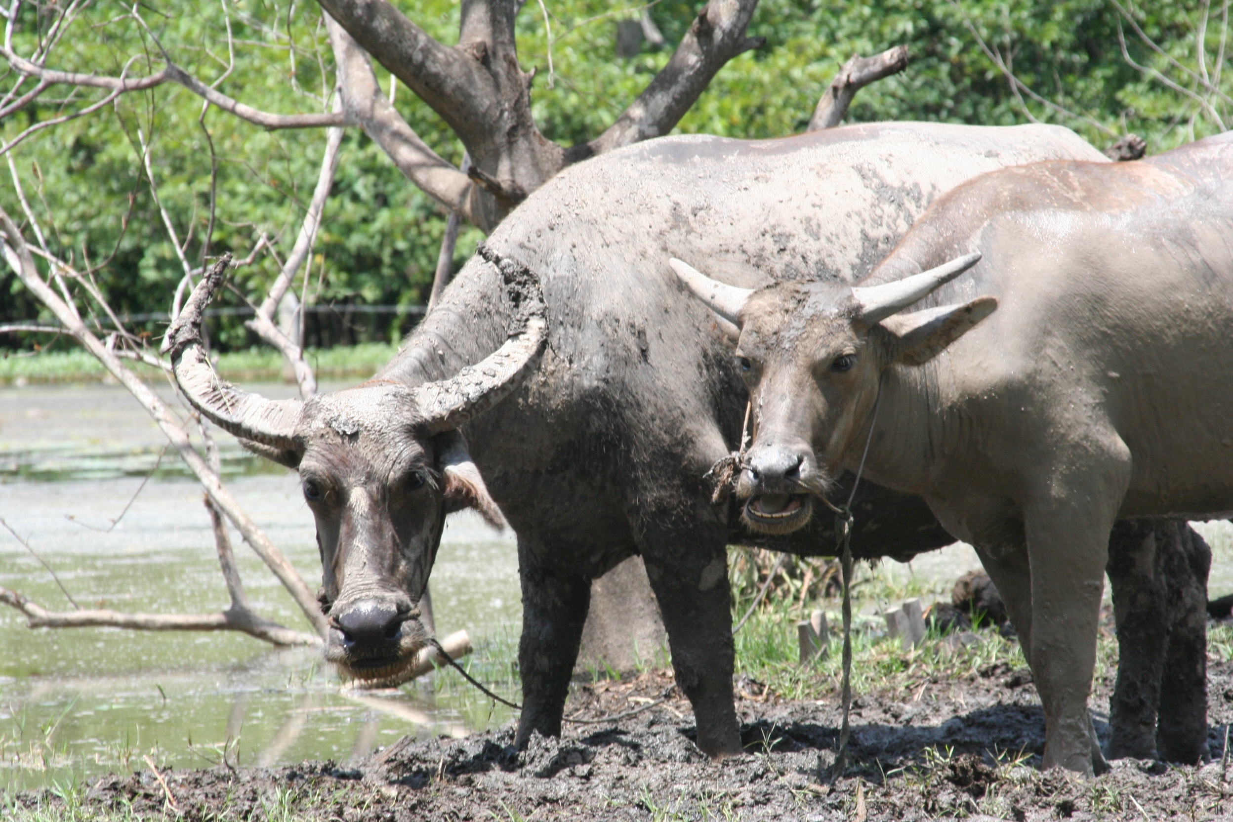 Water buffalo - Bos bubalus - in Binh Quoi village, (Binh Thanh District, Ho Chi Minh City, Vietnam,) taken Jun 2005. Photographer Roderick Divilbiss